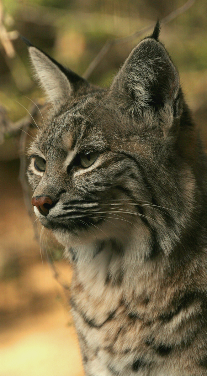 The Bobcat (Lynx rufus) is a North American mammal of the cat family. Although the Bobcat has been subject to extensive hunting by humans, both for sport and fur, its population has proven resilient. The elusive predator features in Native American mythology and the folklore of European settlers.